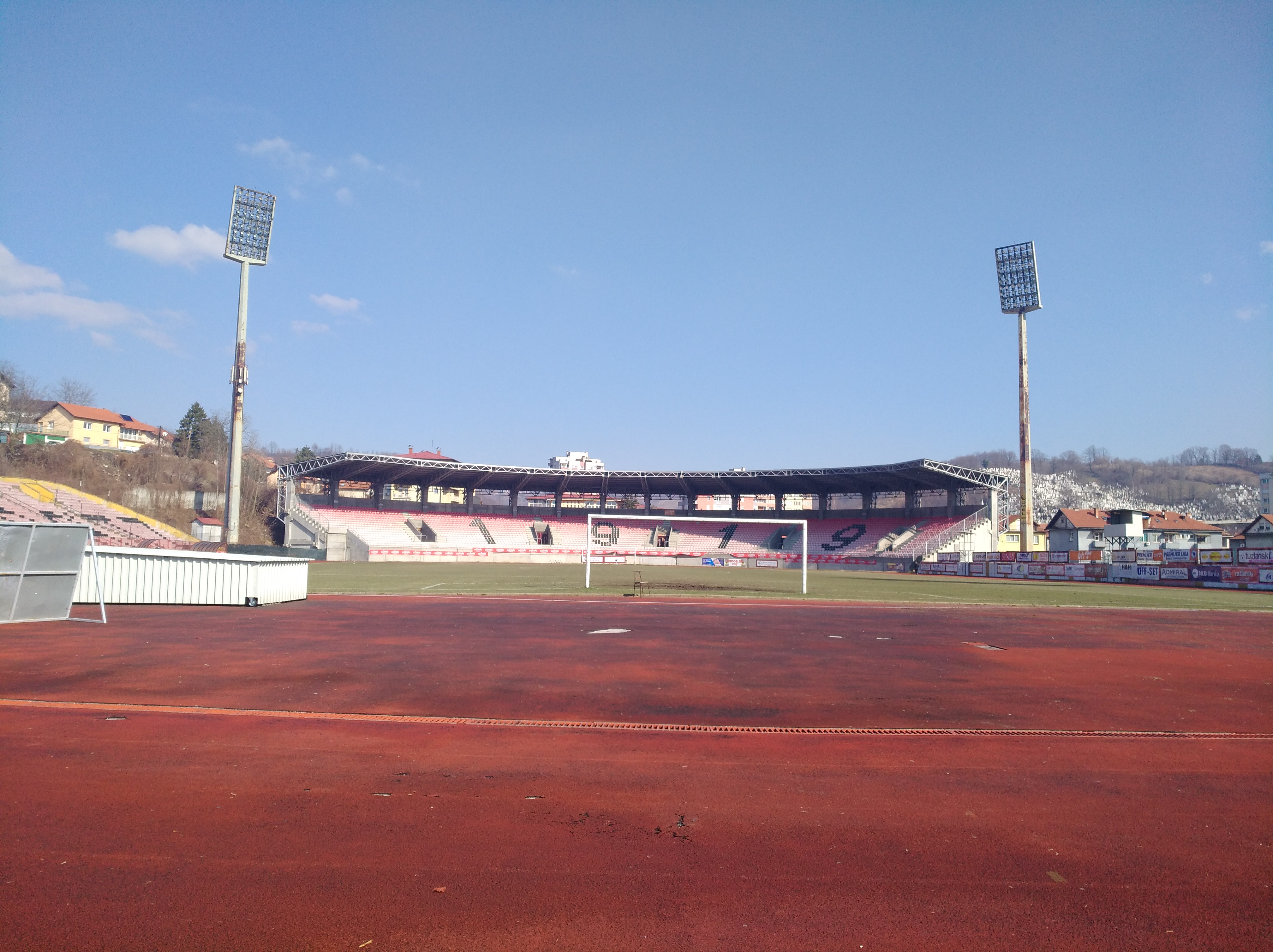 Tušanj Stadium, Tuzla, Bosnia and Herzegovia.